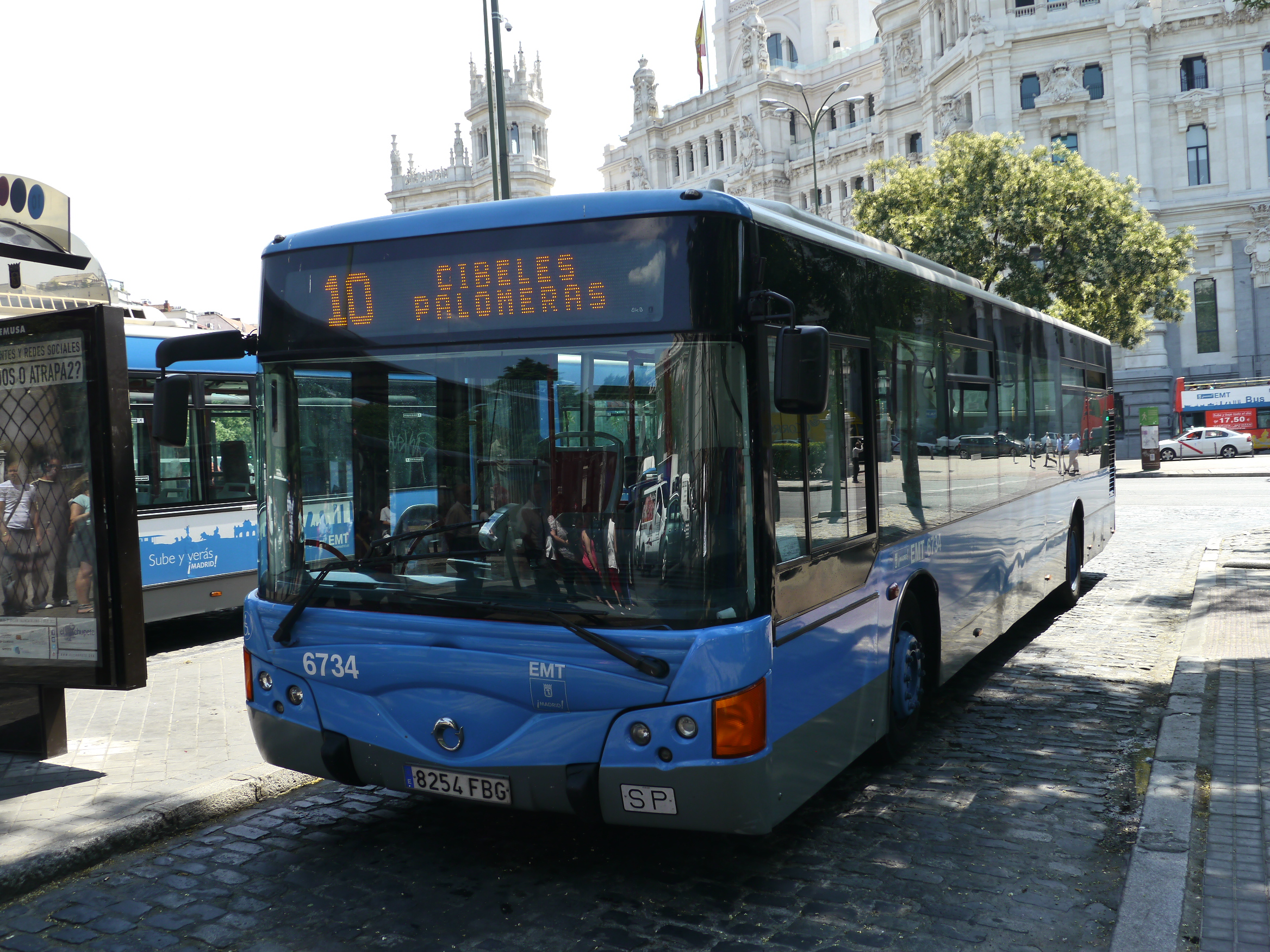 Iveco Noge (Cibeles, Madrid)